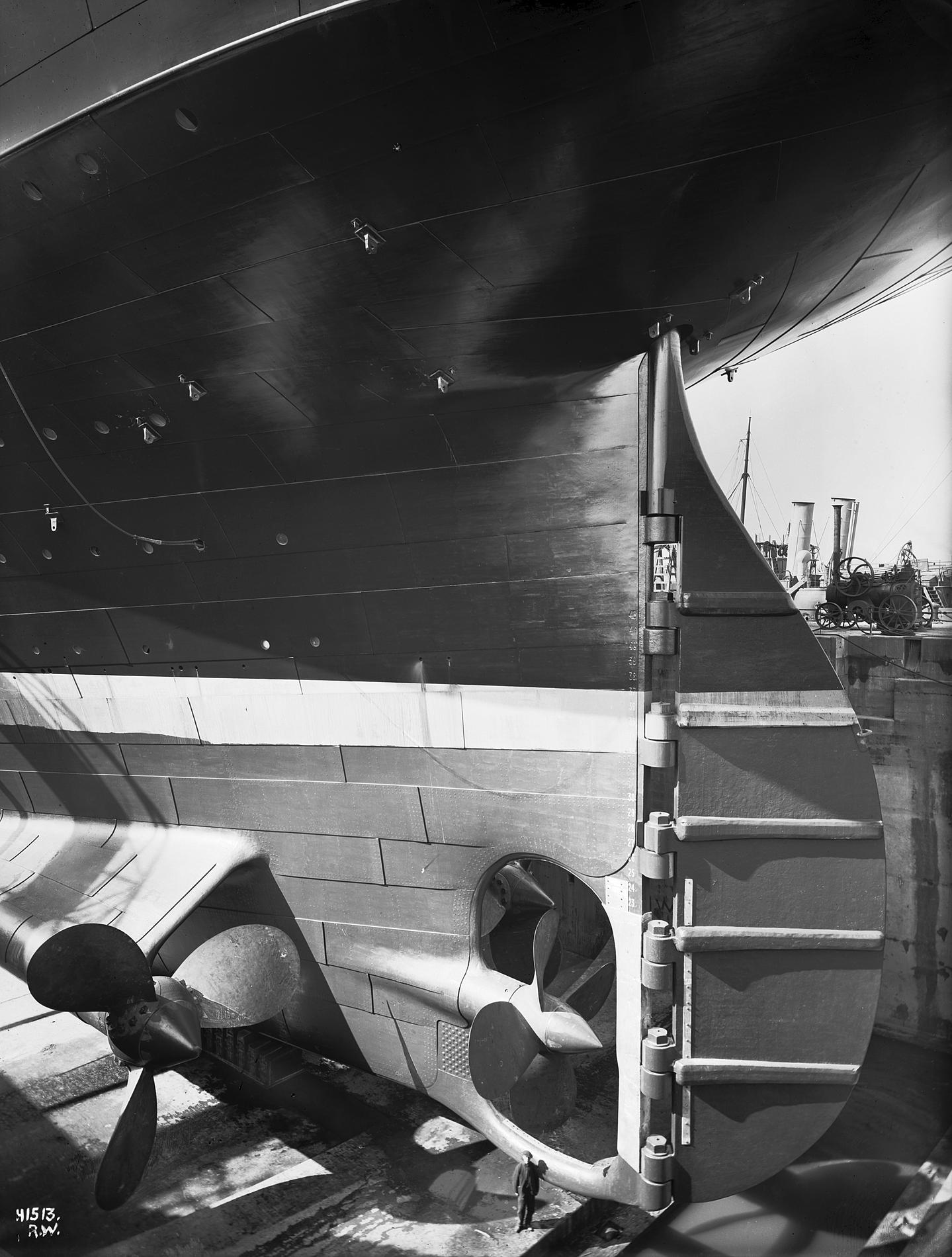 According to the source, United States Library of Congress, this is an image of Titanic's stern and rudder. Others claim it to be of her sister Olympic ( Bruce Beveridge: Titanic—The Ship Magnificent Volume One: Design & Construction, 2008, The History Press, page 100). The ship in this photo is in fact the RMS Olympic. Taken in 1911, the Titanic was not fitted with propellers until February or March of 1912. To date, there are no known photographs of her propellers, whereas the Olympic had hers photographed quite often. "When Olympic entered service in 1911, her propellers were photographed and these well-known photos show her turbine-driven central propeller as a four-bladed casting"